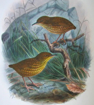 Extinct bird Xenicus lyalli (Xenicidae), male (lower)& female (upper). From Buller, Walter Lawry, A History of the Birds of New Zealand. Supplementary Notes to the 'Birds of New Zealand'. Vol. II.. 1905.